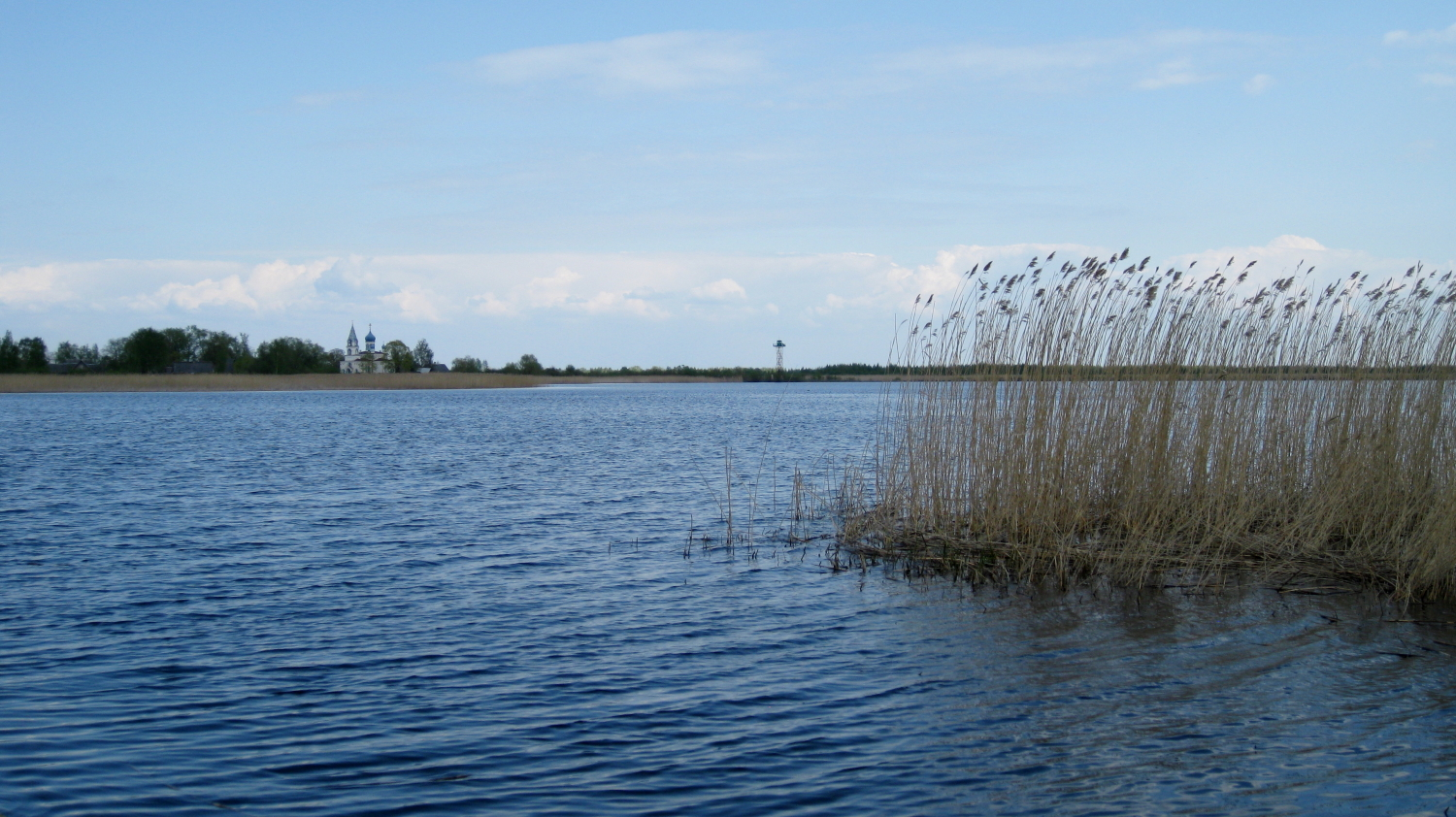 View from Podmotsa, Estonia towards Kulje, Russian Federation